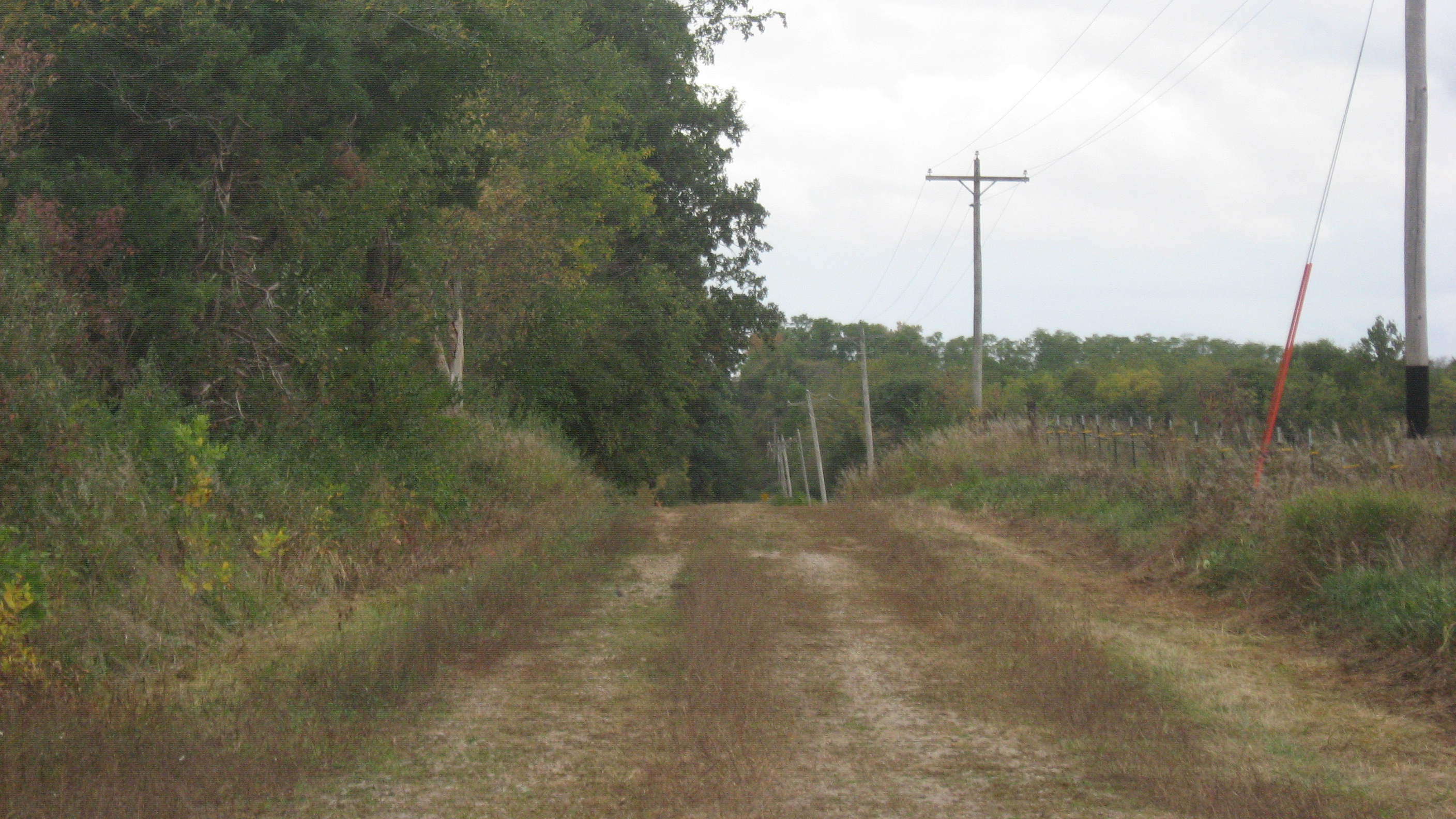 Looking southward along Avenue V from its junction with 105th Street southwest of Columbus Junction in Elm Grove Township, Louisa County, Iowa, United States. Not easily visible in the distance is the deteriorating Gipple's Quarry Bridge, which formerly carried the road over Buffington Creek; built in 1893, it is listed on the National Register of Historic Places. A closer view is not practical, as the road is effectively closed in both directions.